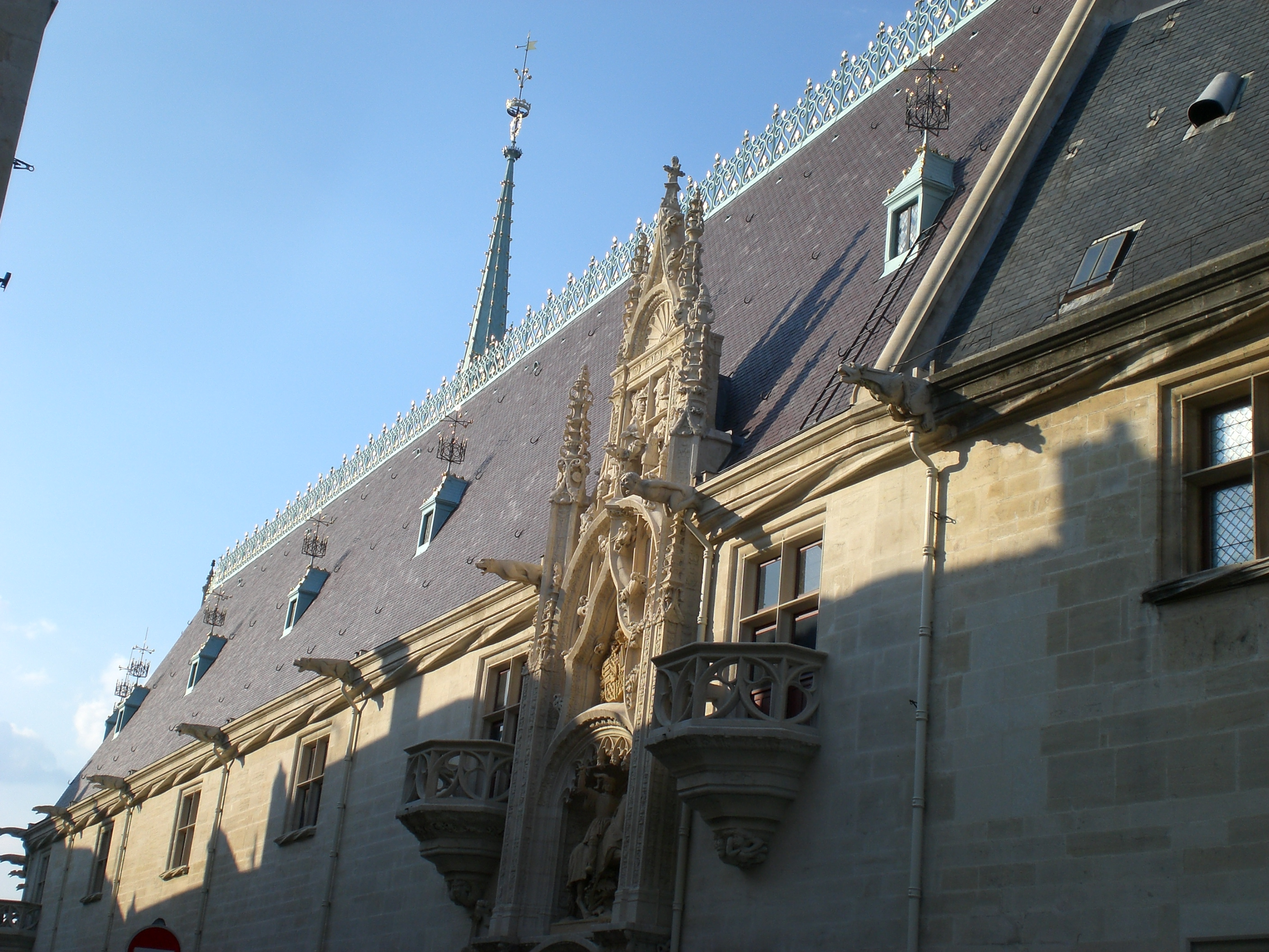 Nancy, Palace of the Dukes of Lorraine, 1502-17